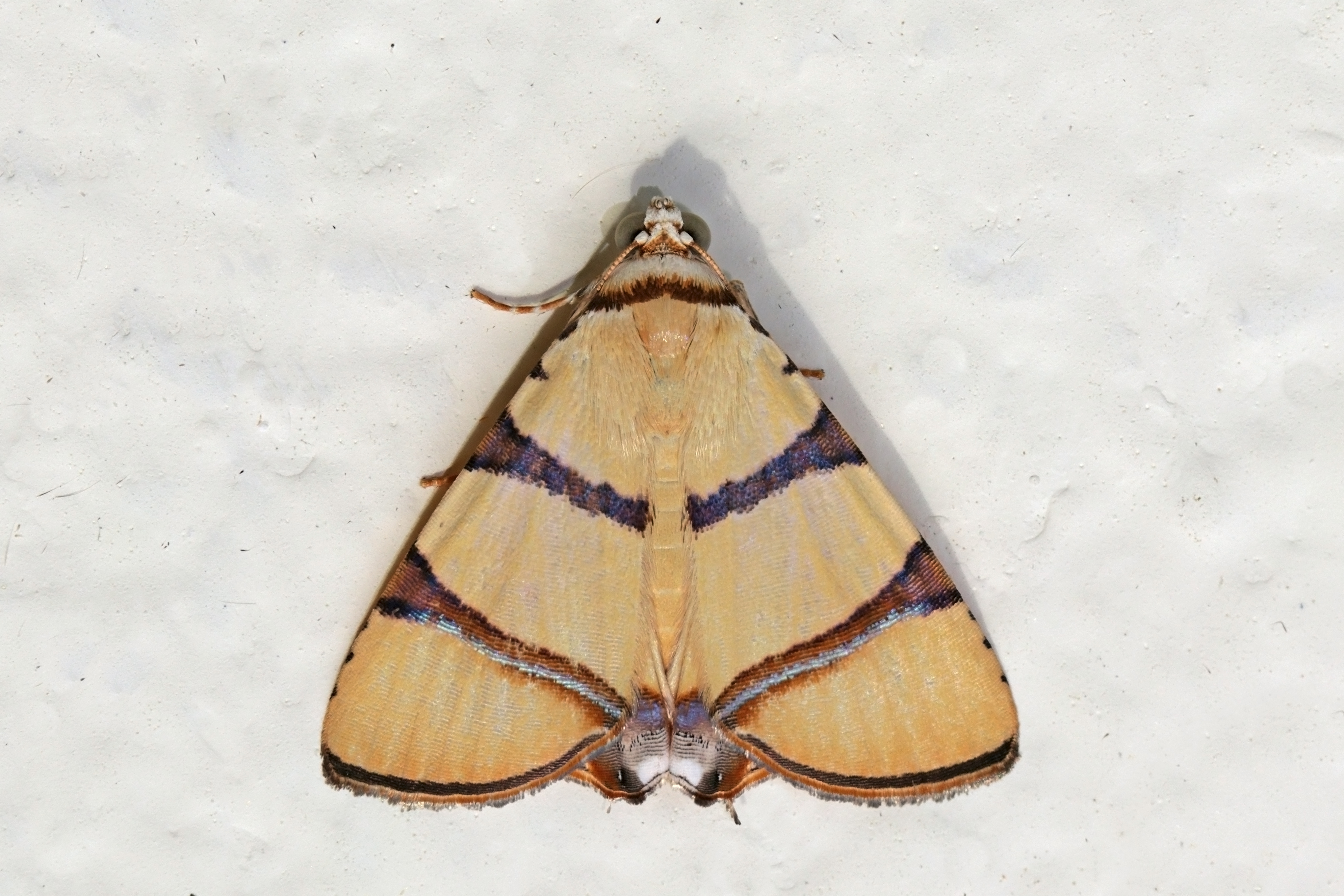 Erebid moth (Eulepidotis affinis), Mount Totumas cloud forest, Panama